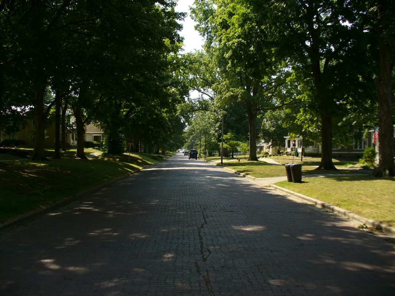 Cherry St. in Mount Carmel, Illinois. Seen from 7th St. - Attempted to capture old brick Category:Images of Mount Carmel, Illinois